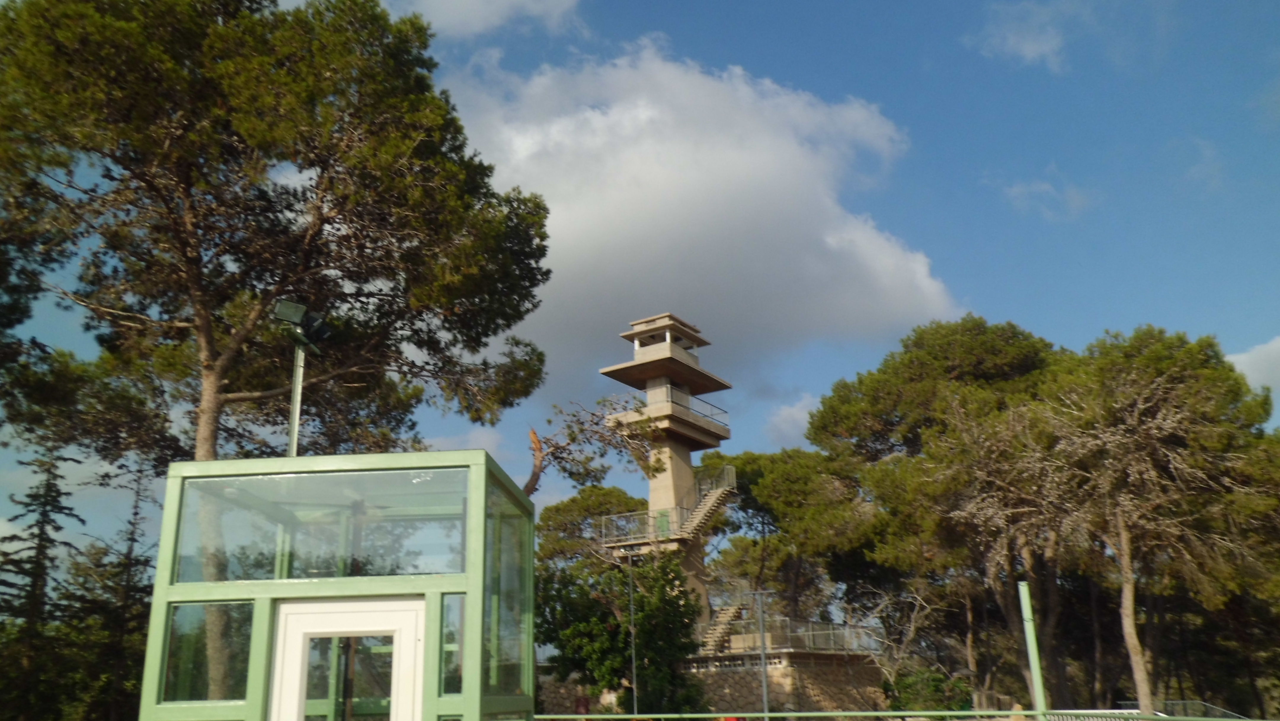 Observation tower of the Jewish National Foundation Ofer forest at the Caramel Beach area.